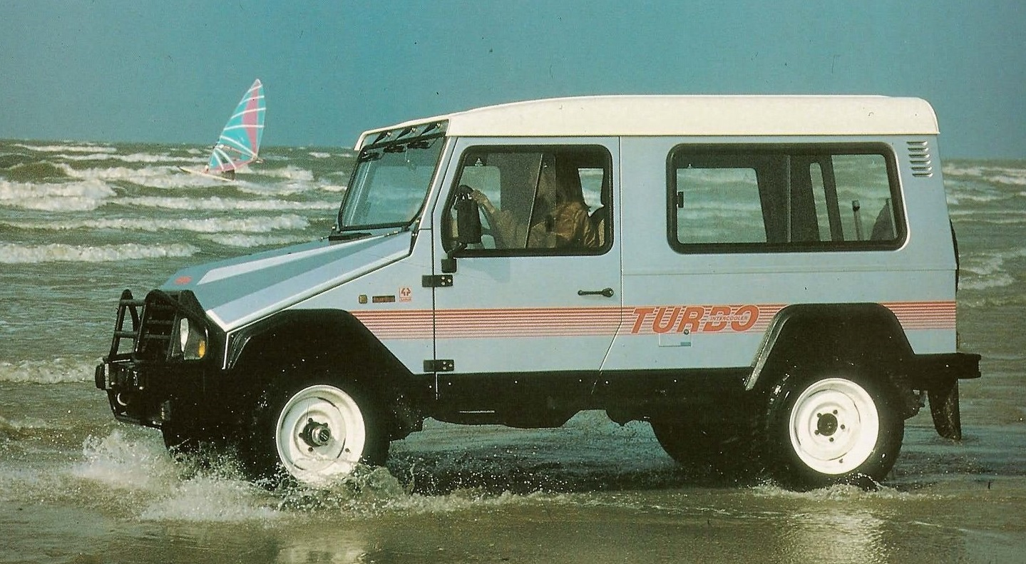 UMM Alter tubo 1988-1991